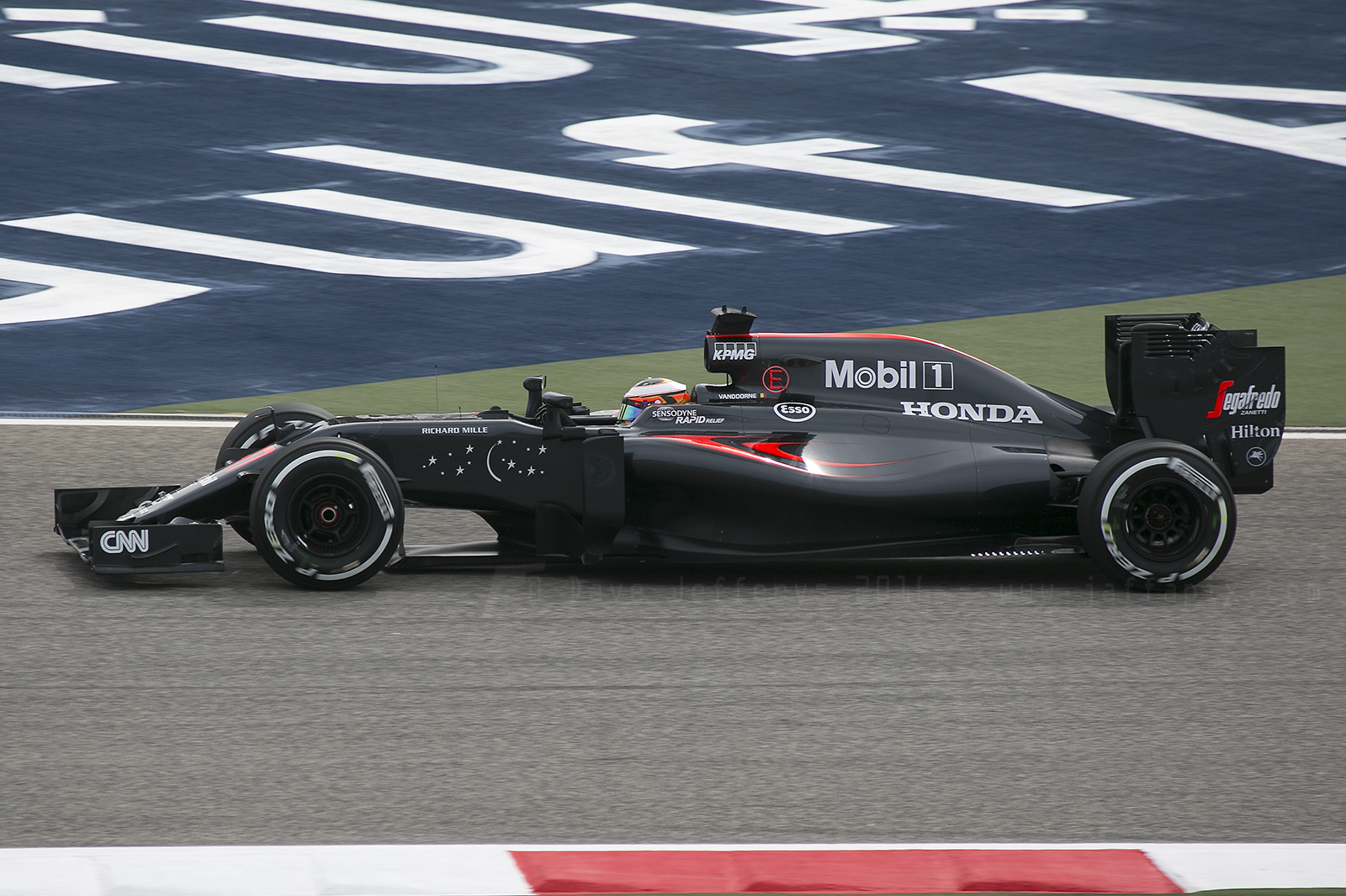 Stoffel Vandoorne at the 2016 Bahrain Grand Prix